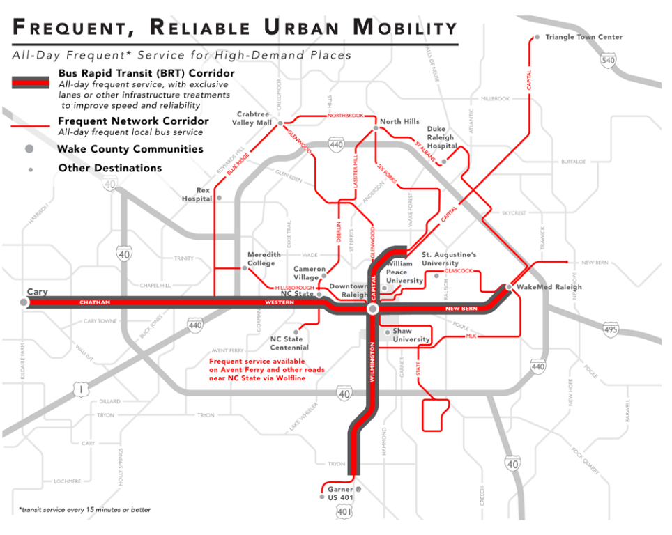 Future GoRaleigh BRT Routes.